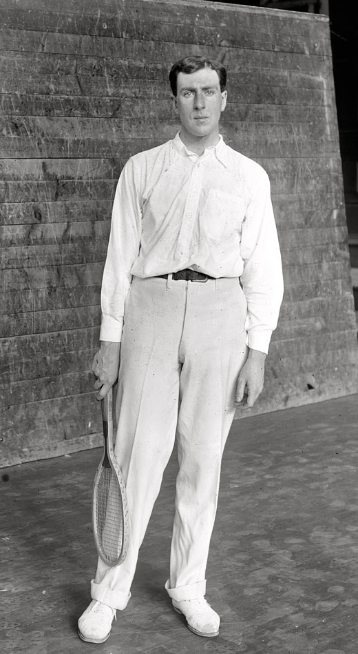 New York, March 20, 1908. "Wiley C. Grant on his way to London to play in Olympic Games." 8x10 glass negative, G.G. Bain Collection